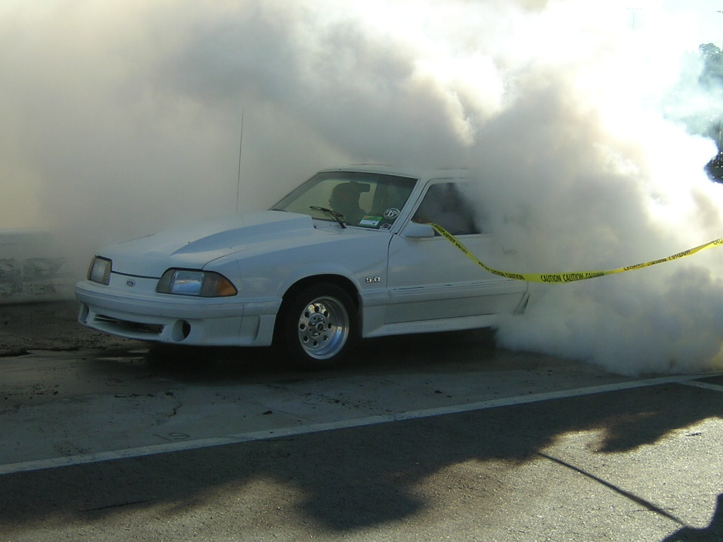 A fox-body Mustang competes in a burnout contest.